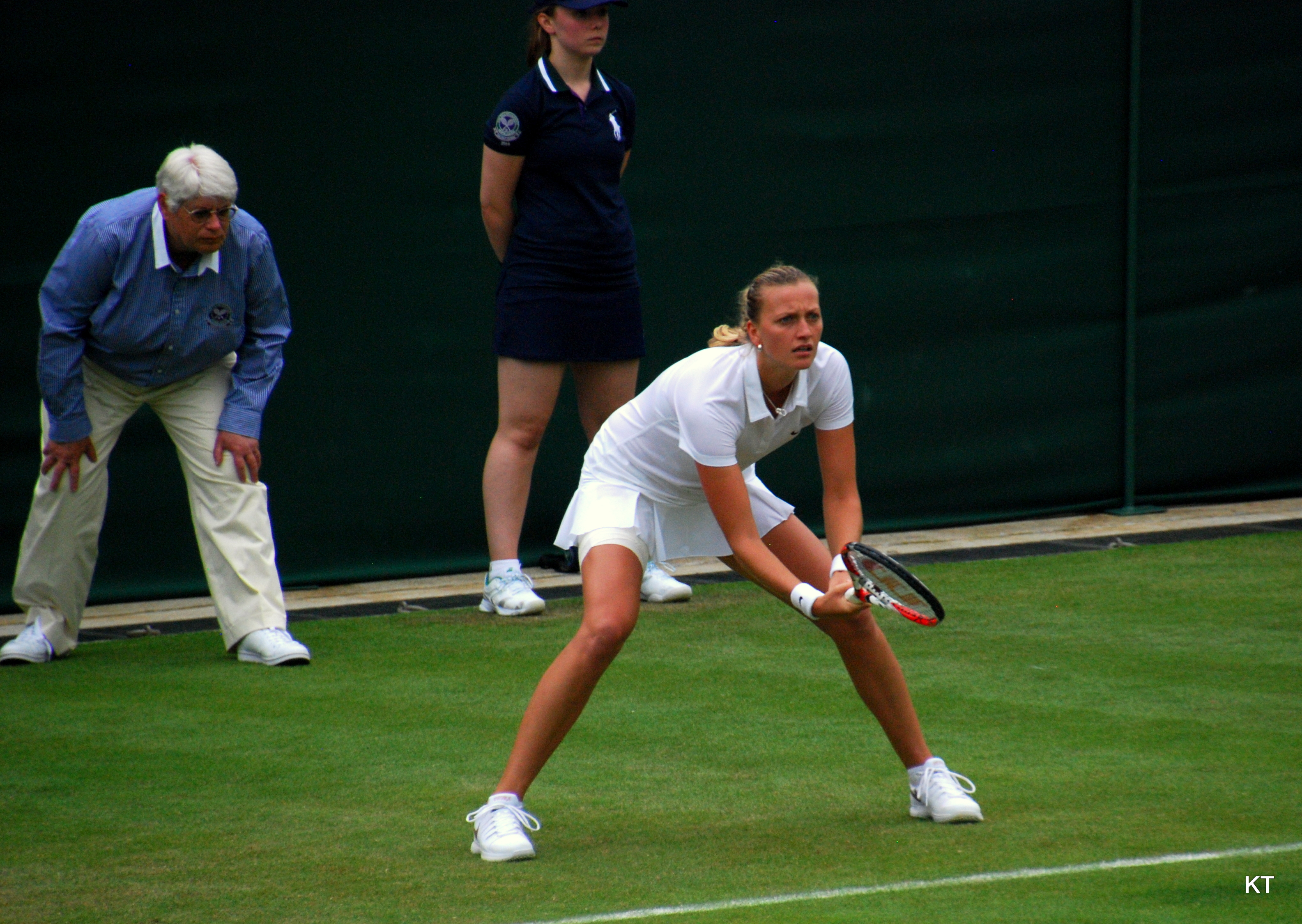 Petra Kvitova during her first round match with Andrea Hlavackova. Petra won this and her next six matches, to become Wimbledon champion for a second time. Day 1 of Wimbledon 2014.